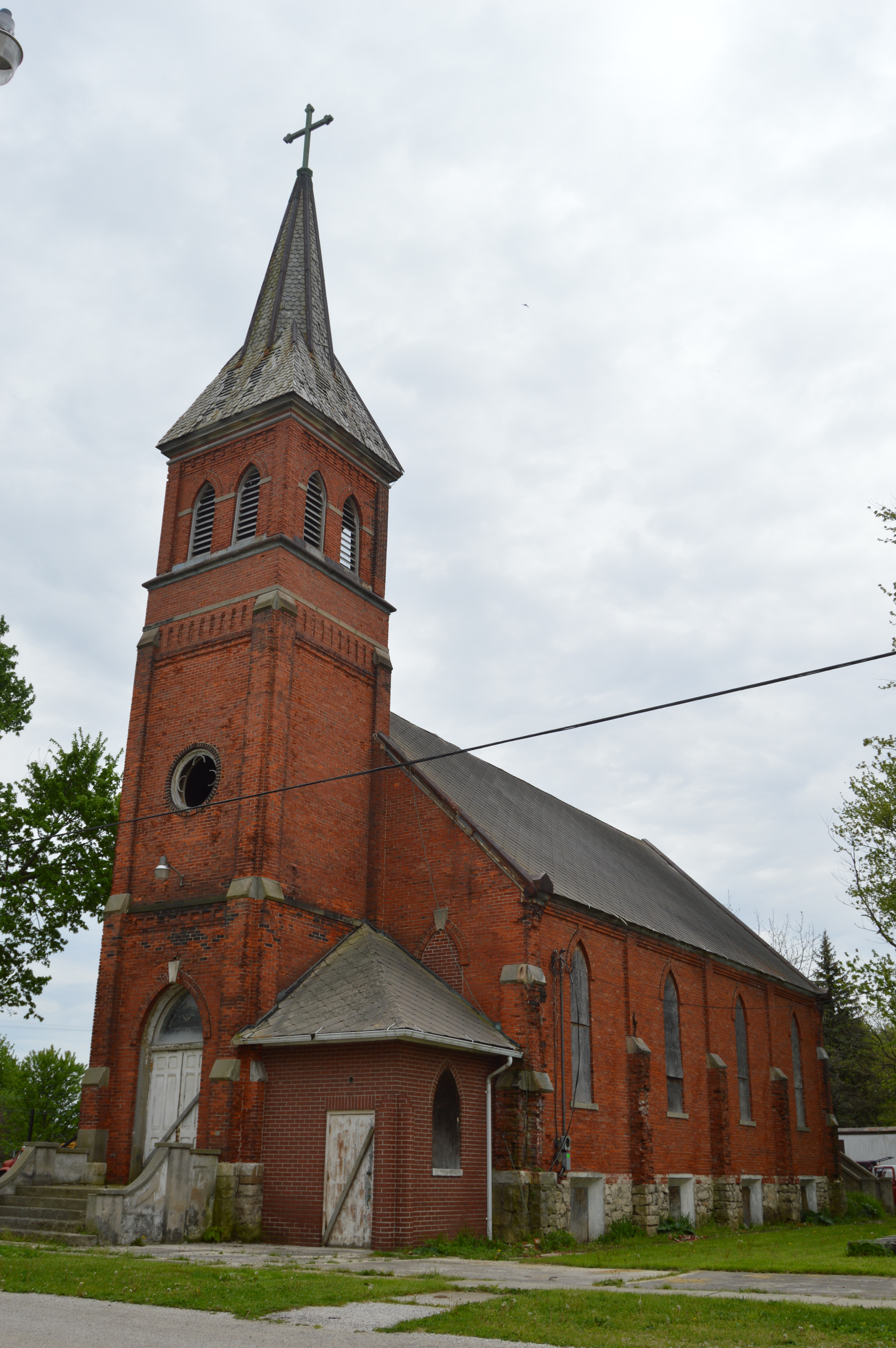 Front and western side of the former St. John's Lutheran Church, located at 14532 Second Street in Rocky Ridge, Ohio, United States. It was built in 1889, and the church's nearby current building was built in 1967.